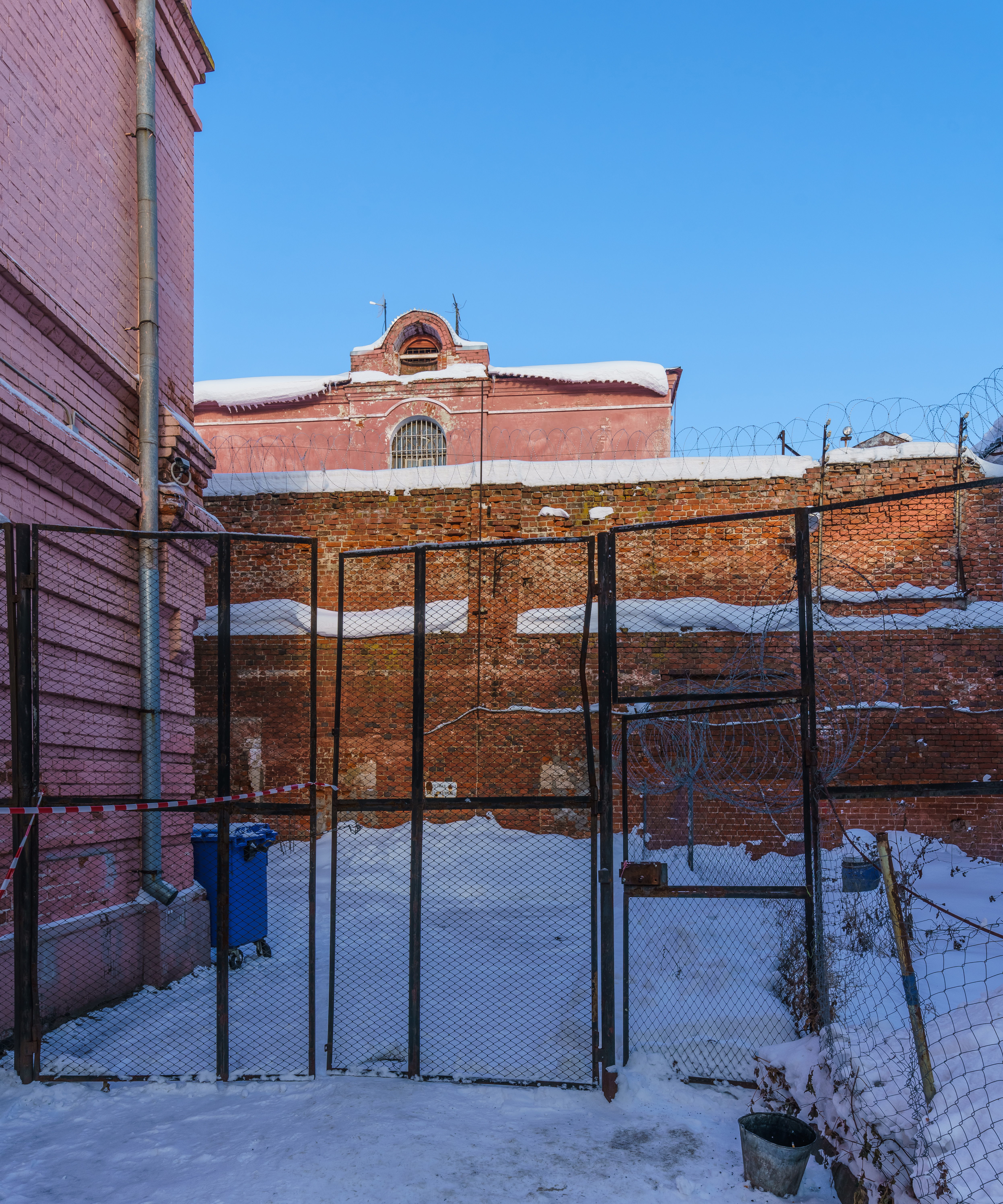 Vladimir Central Prison (view from the street) in Vladimir, Russia